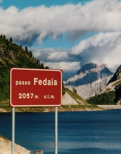 Fedaia pashoogte